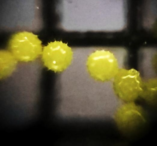 Pollens of Abelmoschus esculentus